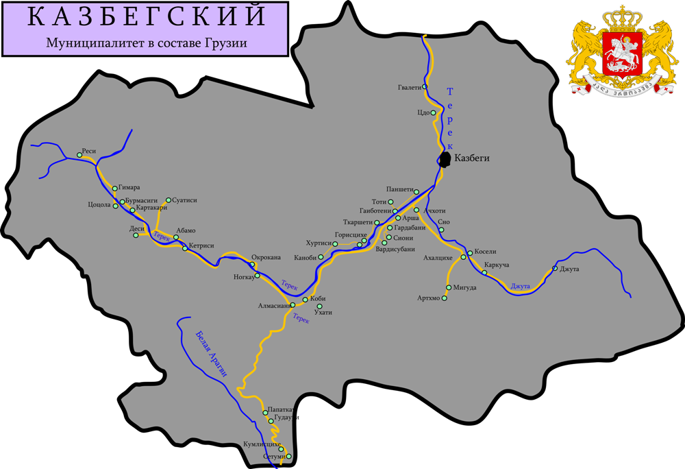 The map of kazbegi District. Based on the official map from the gov portal [1]